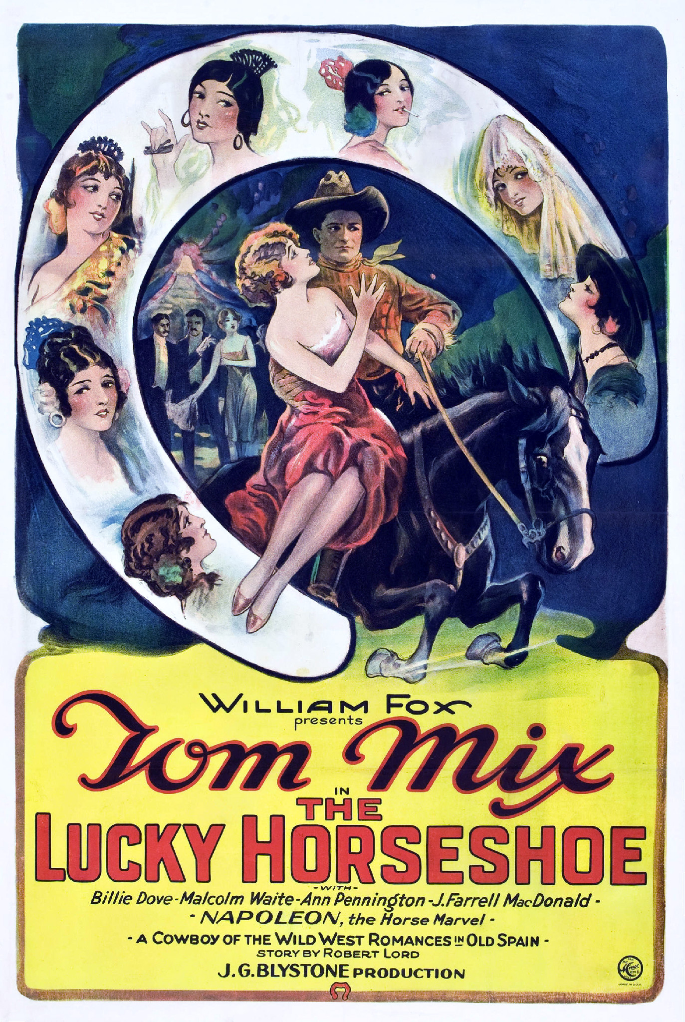 Poster for the 1925 film The Lucky Horseshoe. There are no copyright marks on the poster. At bottom right is Made in USA and the logo of the H. C. Miner Litho Co.-they printed the poster.